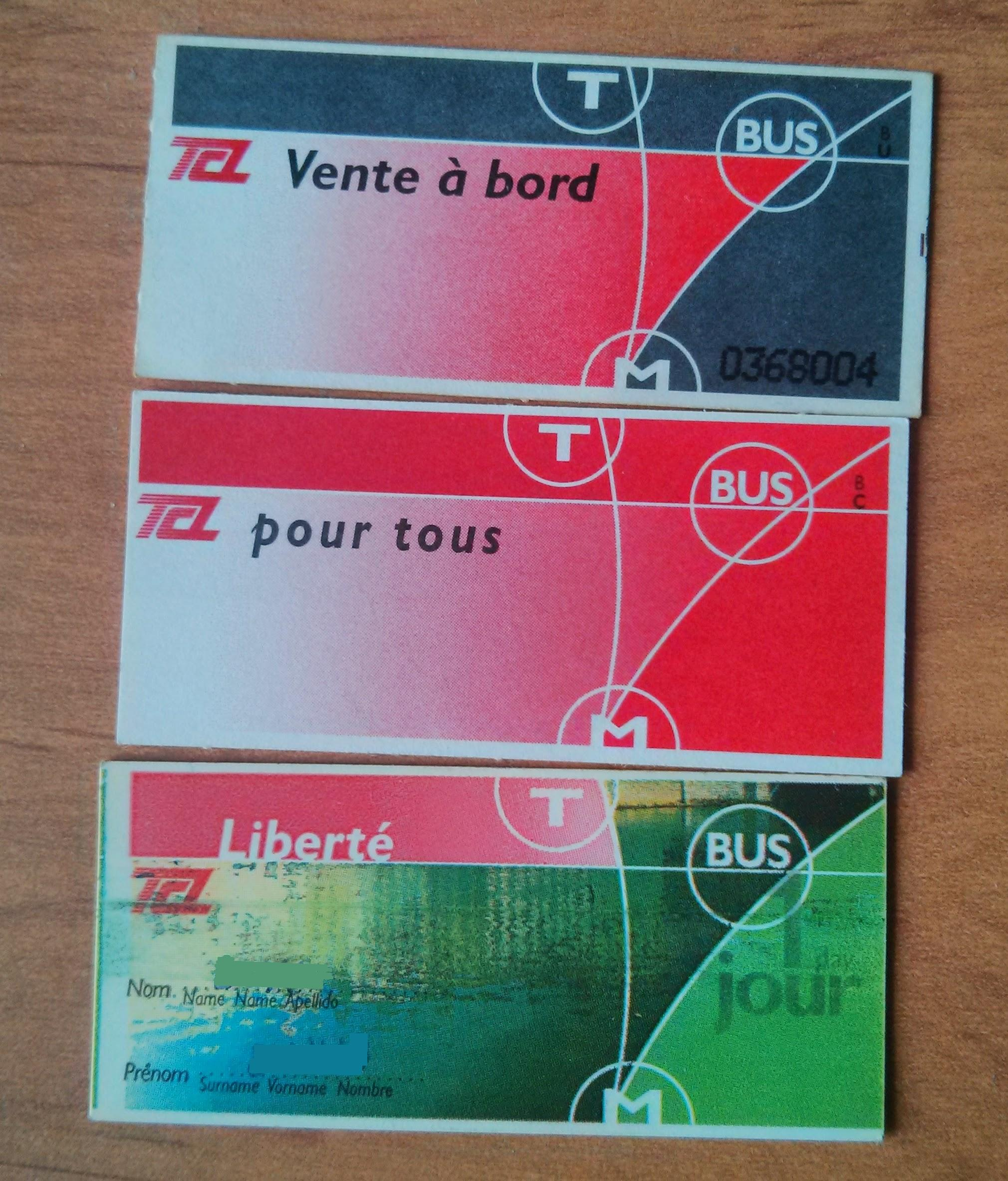 Transports tickets in Lyon